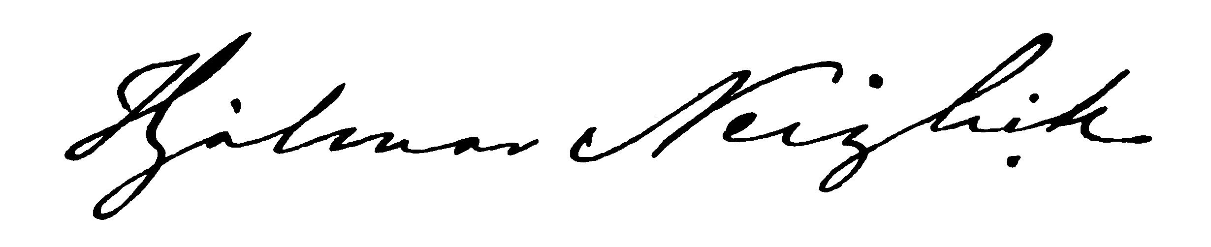 Signature of Finnish psychologist Hjalmar Neiglick.